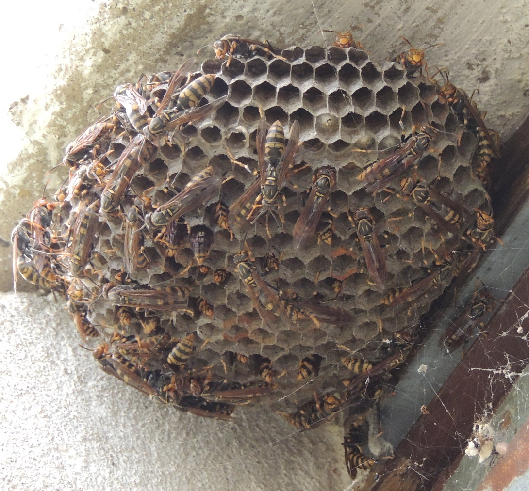 Polistes rothneyi, nest, Gusevskii Mine, Primorskii Krai, Russia